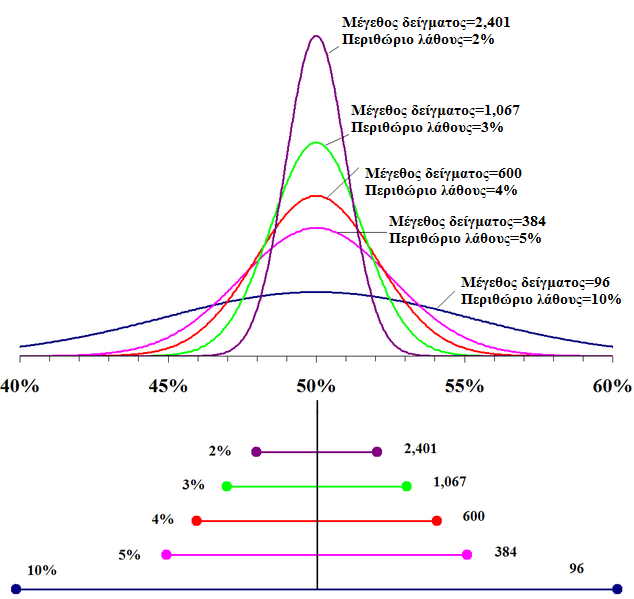 Own work using Marginoferror95.PNG